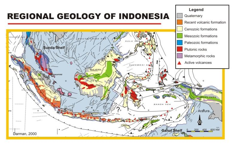 Herman Darman, 2000.